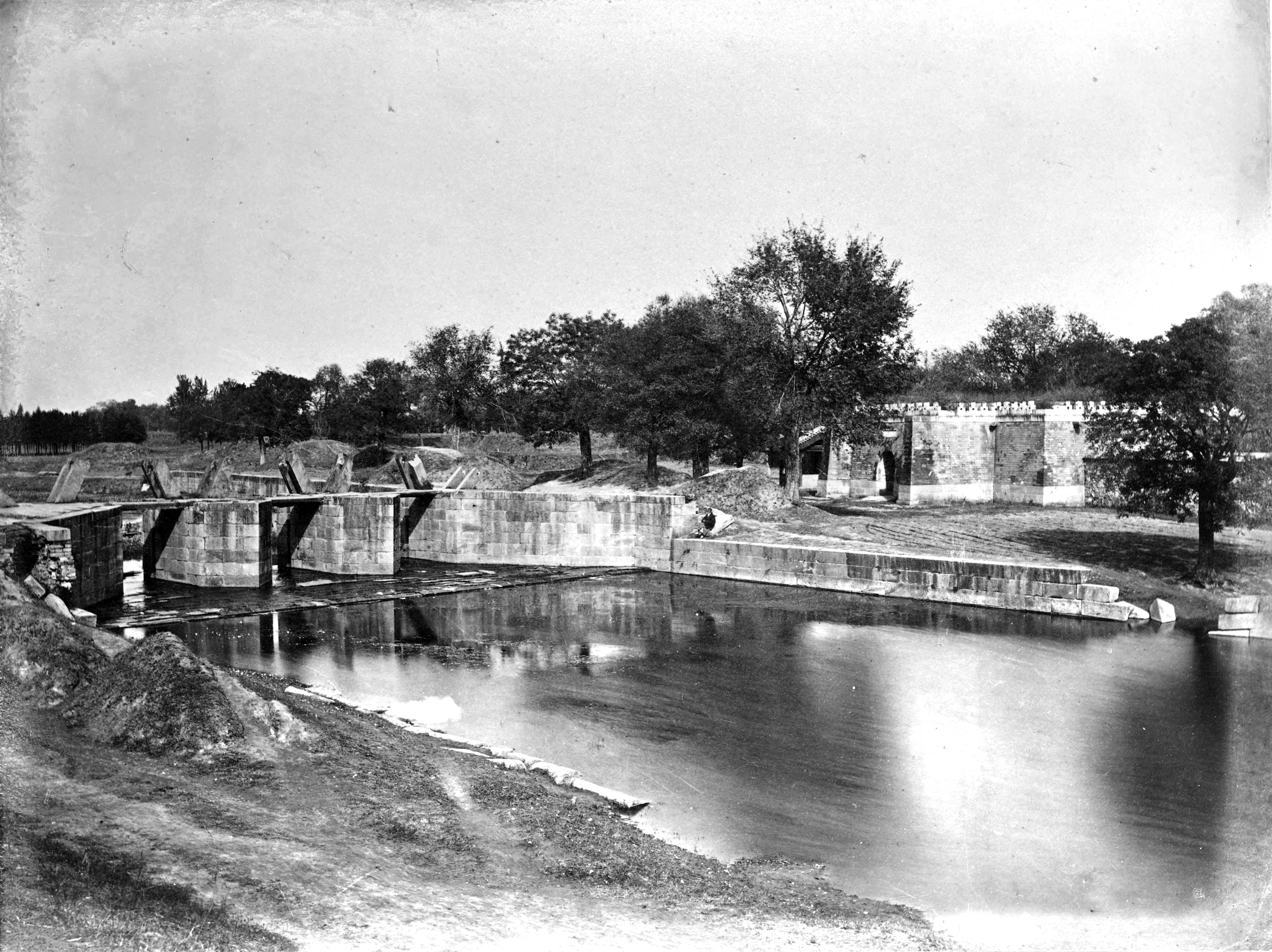 Photograph in Album of photographs of Peking and its environs.